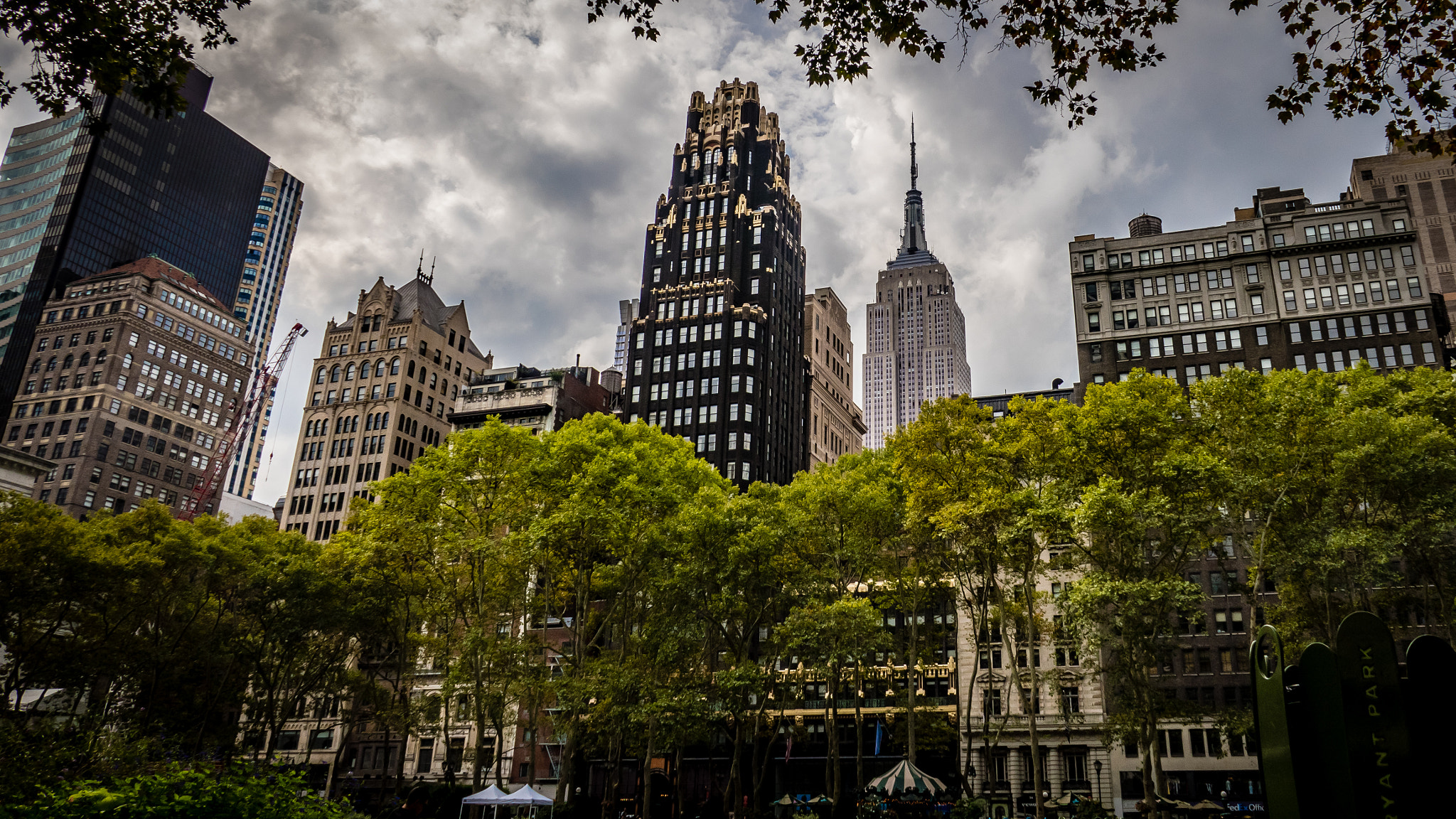 500px provided description: View of the Empire State building from the west side of Central park near Columbus Circle. [#walking ,#new york city ,#nyc ,#cities ,#manhattan]